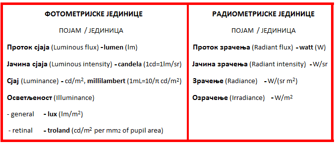 ФОТОМЕТРИЈСКЕ И РАДИОМЕТРИЈСКЕ ЈЕДИНИЦЕ